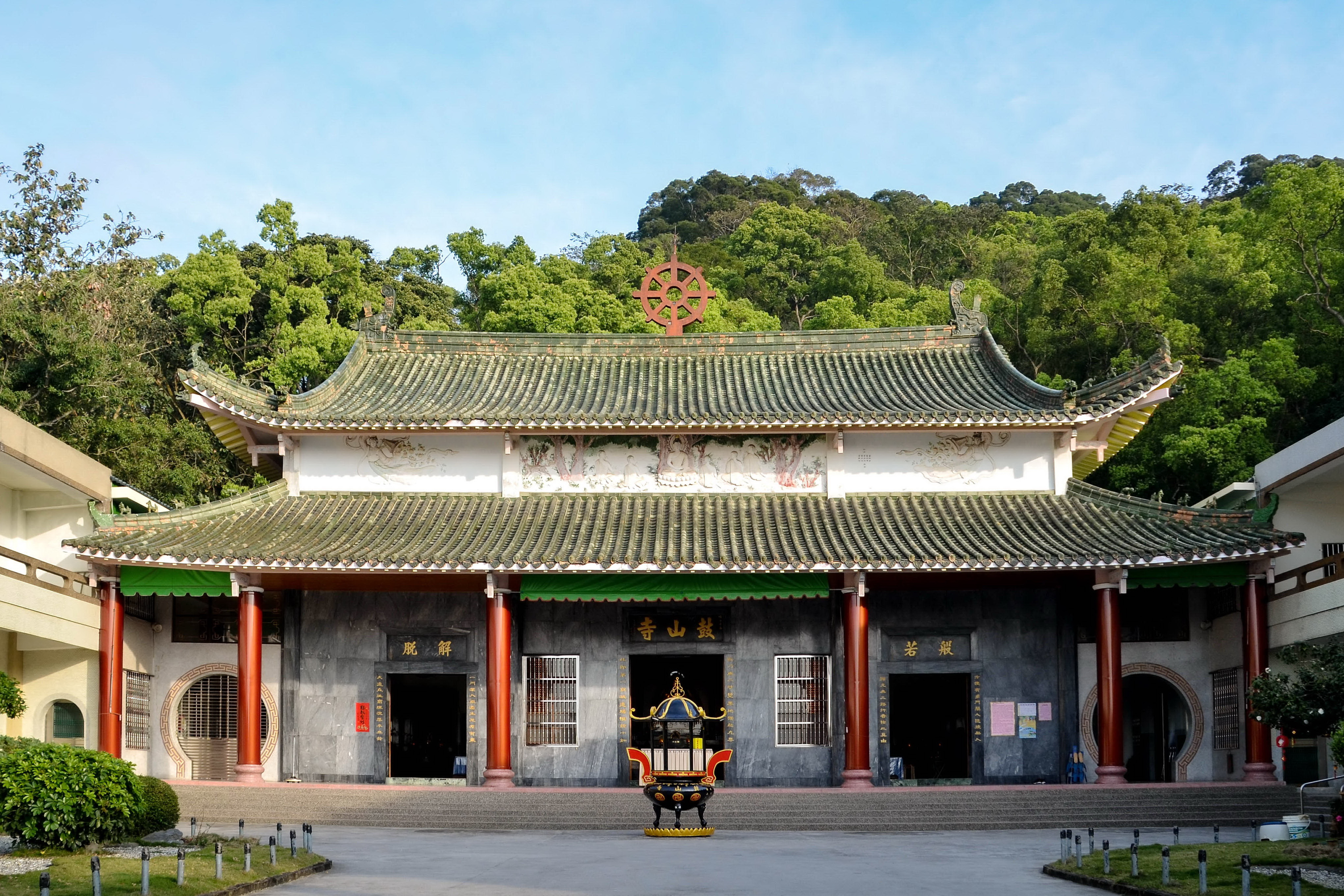 Gushan Temple (No. 187, Sec. 2, Zhongnan Rd., Tianzhong Township, Changhua, Taiwan)